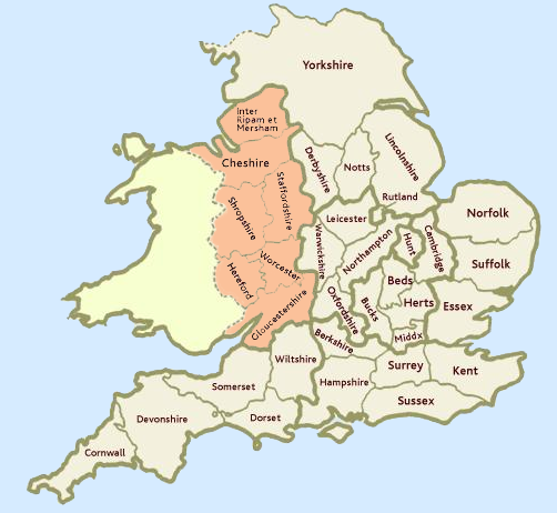 Counties of England in the year 1086, as documented in the Doomsday Book, after the Norman Conquest. Thee English counties were divided into several "circuits". This one features Inter Ripam et Mersham, Cheshire, Shropshire, Staffordshire, Worcester, Hereford and Gloucestershire. The entity known as "Inter Ripam et Mersham" was a royal estate holding and would simply become part of Cheshire later on.